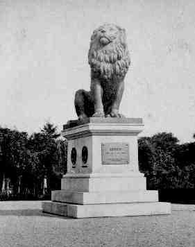 The Isted Lion, a war monument in commemoration of the Danish victory in the Battle of Isted (1850) during the First War of Schleswig (da: Istedløven; de: Flensburger Löwe (or Idstedt Löwe); en: Isted Lion), created in 1859-60 by Herman Wilhelm Bissen. This picture shows the monument on the original location in Flensburg, 1862-1864.